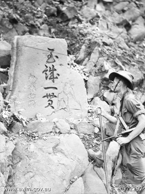 Yaula, New Guinea. 1944-04-10. QX6905 Corporal S.H. O'Leary, 57/60th Infantry Battalion, examines an obelisk showing a Japanese soldier with pick digging at the rock face. The monument was raised by the Japanese to the builders who constructed the road from Bogadjim to Daumoina.